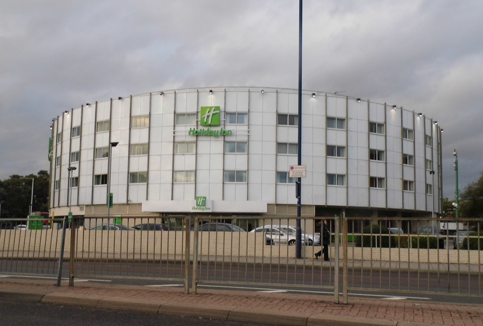 The Holiday Inn Hotel on Bath Road, Harlington